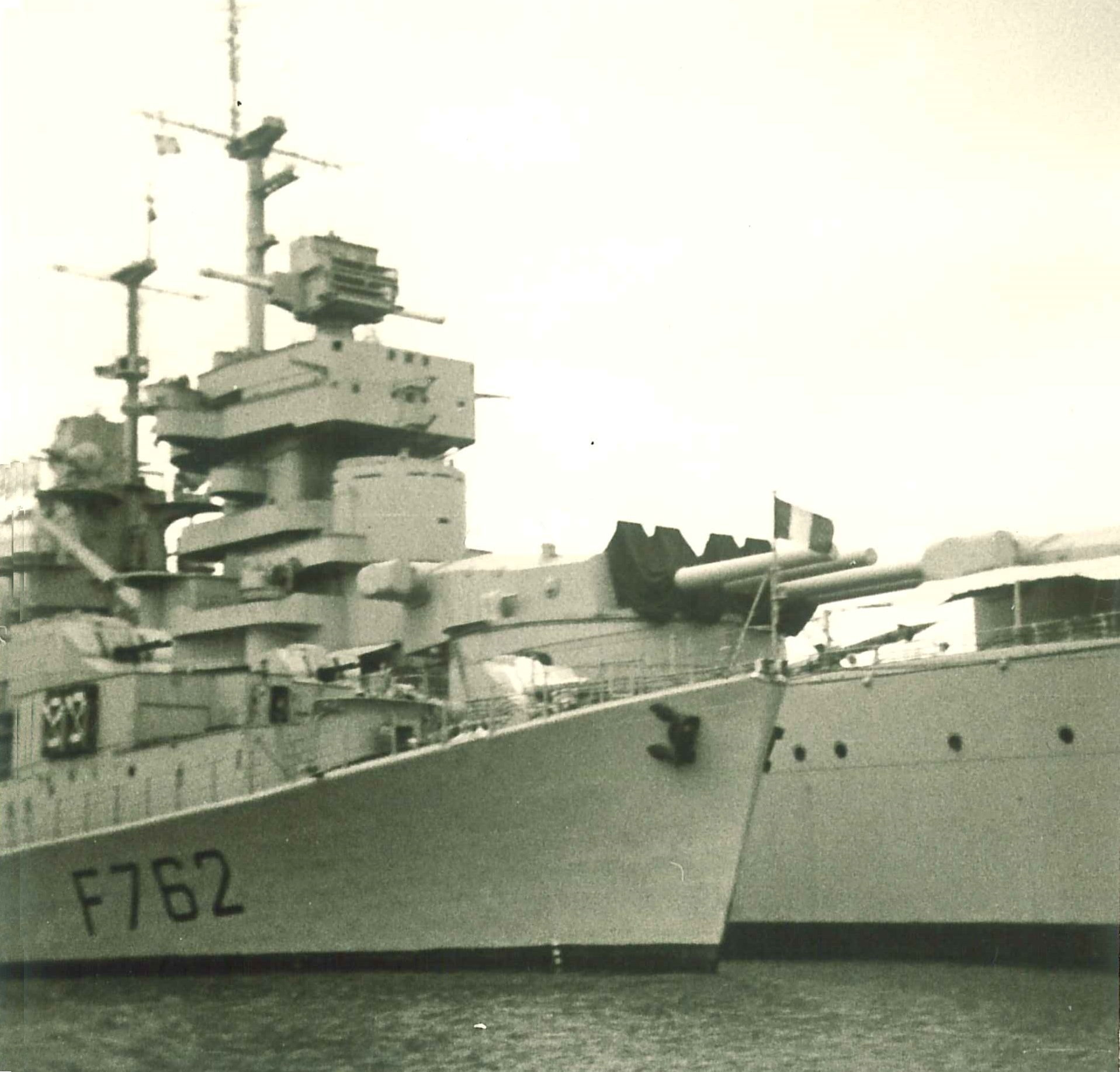 Battleship "Jean Bart" in Harbour of Toulon